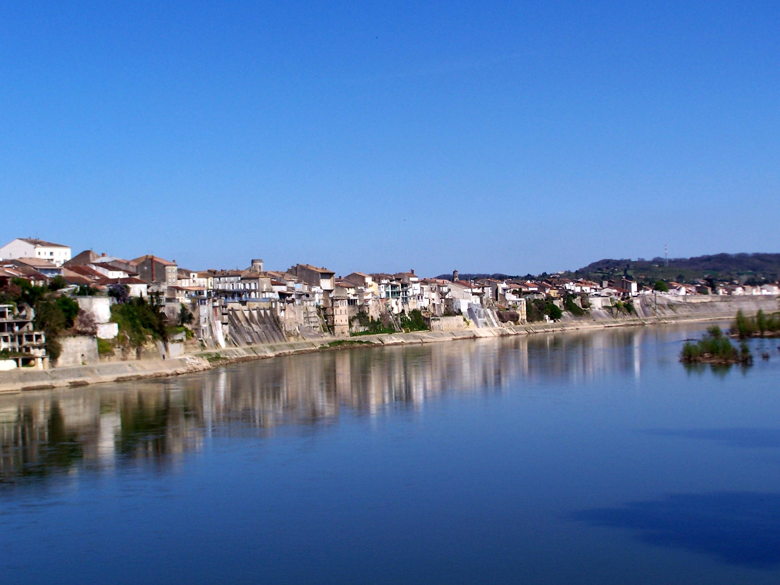 Sight from the bridge on the Garonne, Tonneins (Lot-et-Garonne, France)